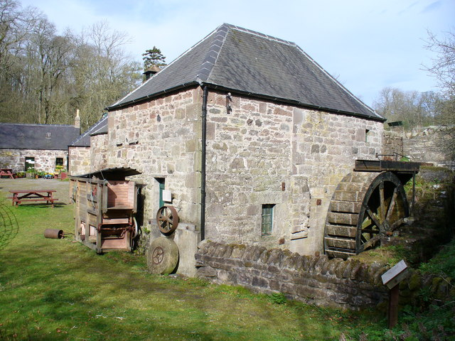 The Mill of Benholm Ancient renovated stone buildings. Note the overshot wheel on the side of the stone barn.